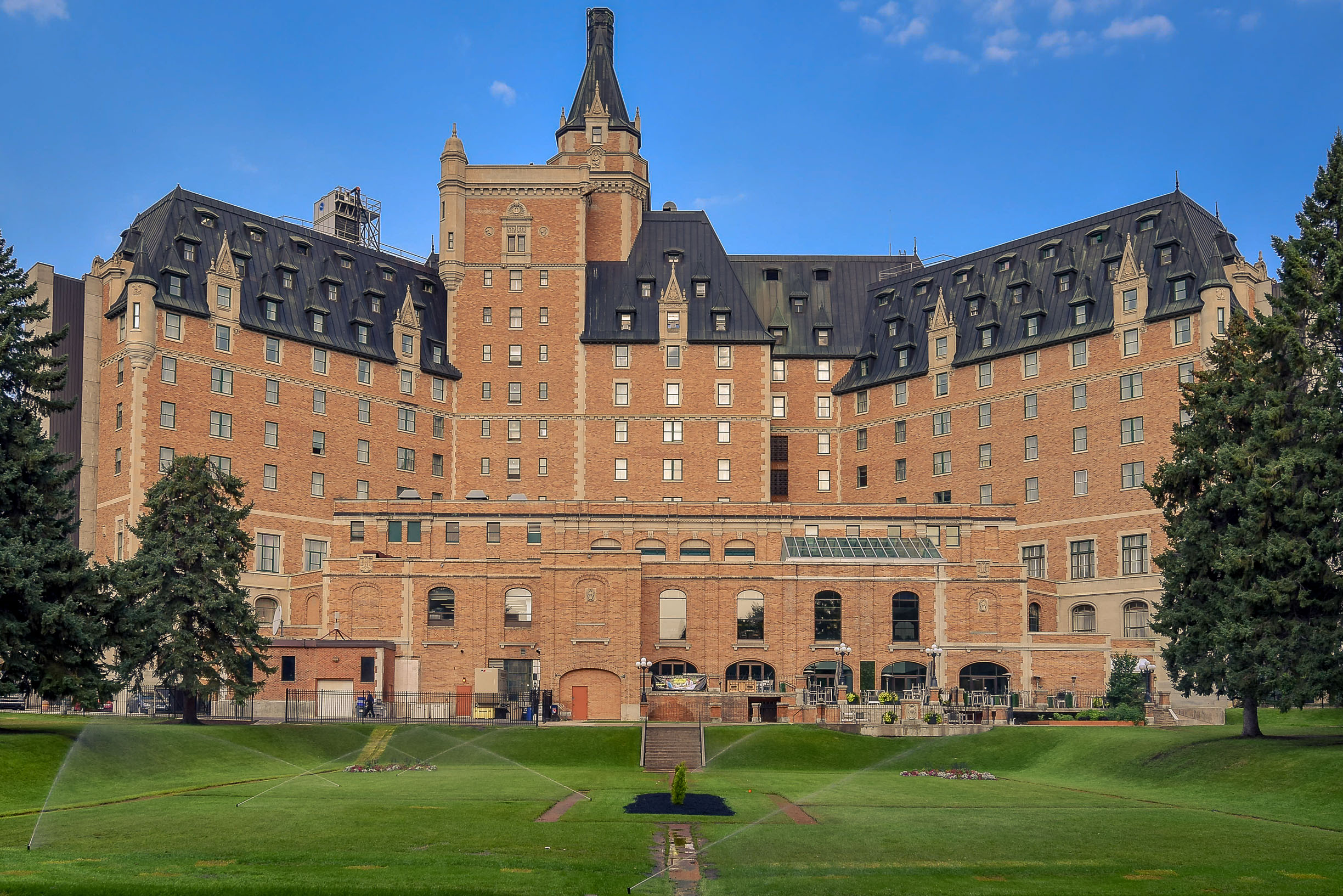 saskatoon, bessborough, hotel, saskatchewan, 2015